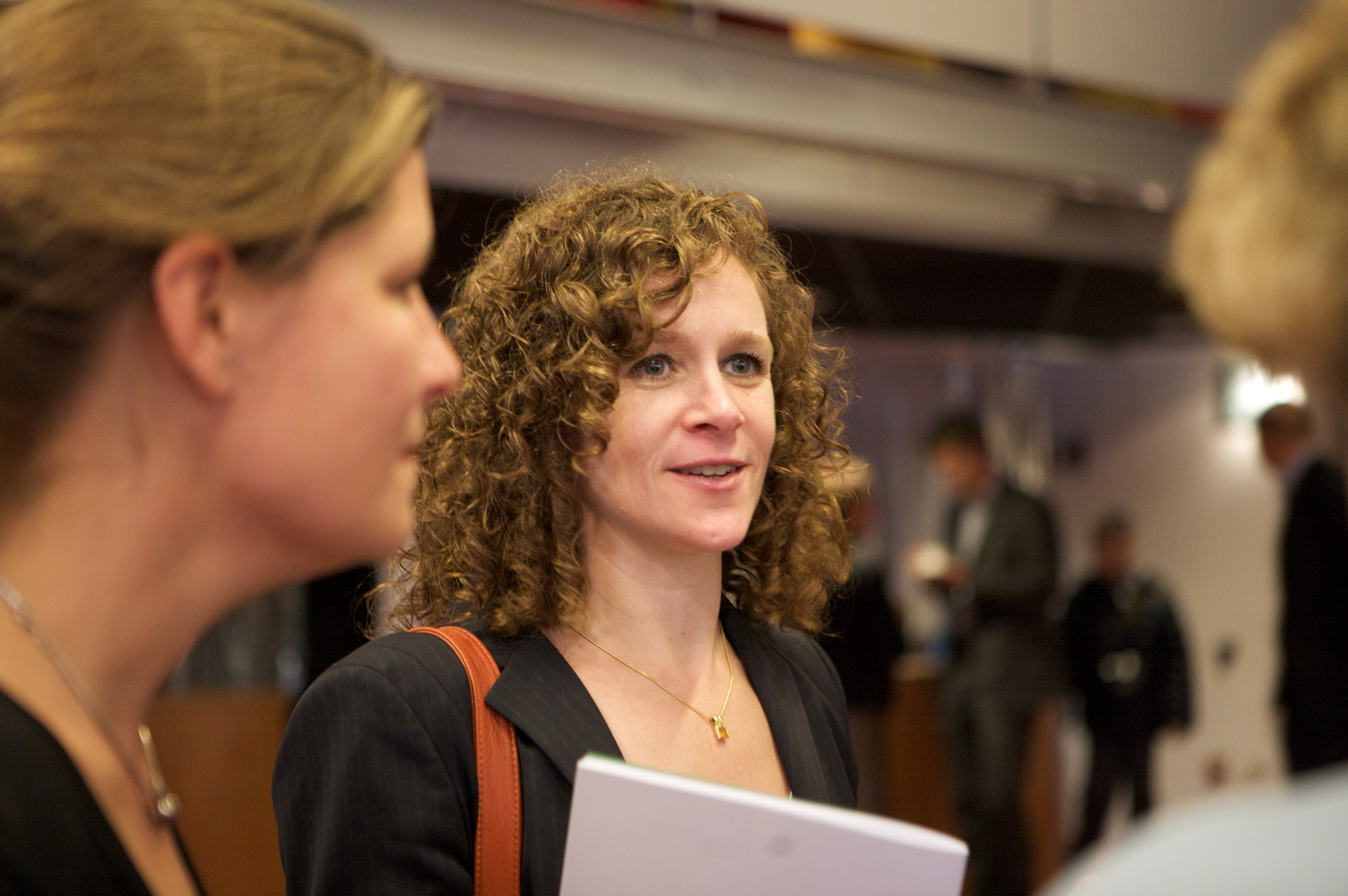 D66 congres 07-11-09 Breda. Europarlementariër Sophie in 't Veld